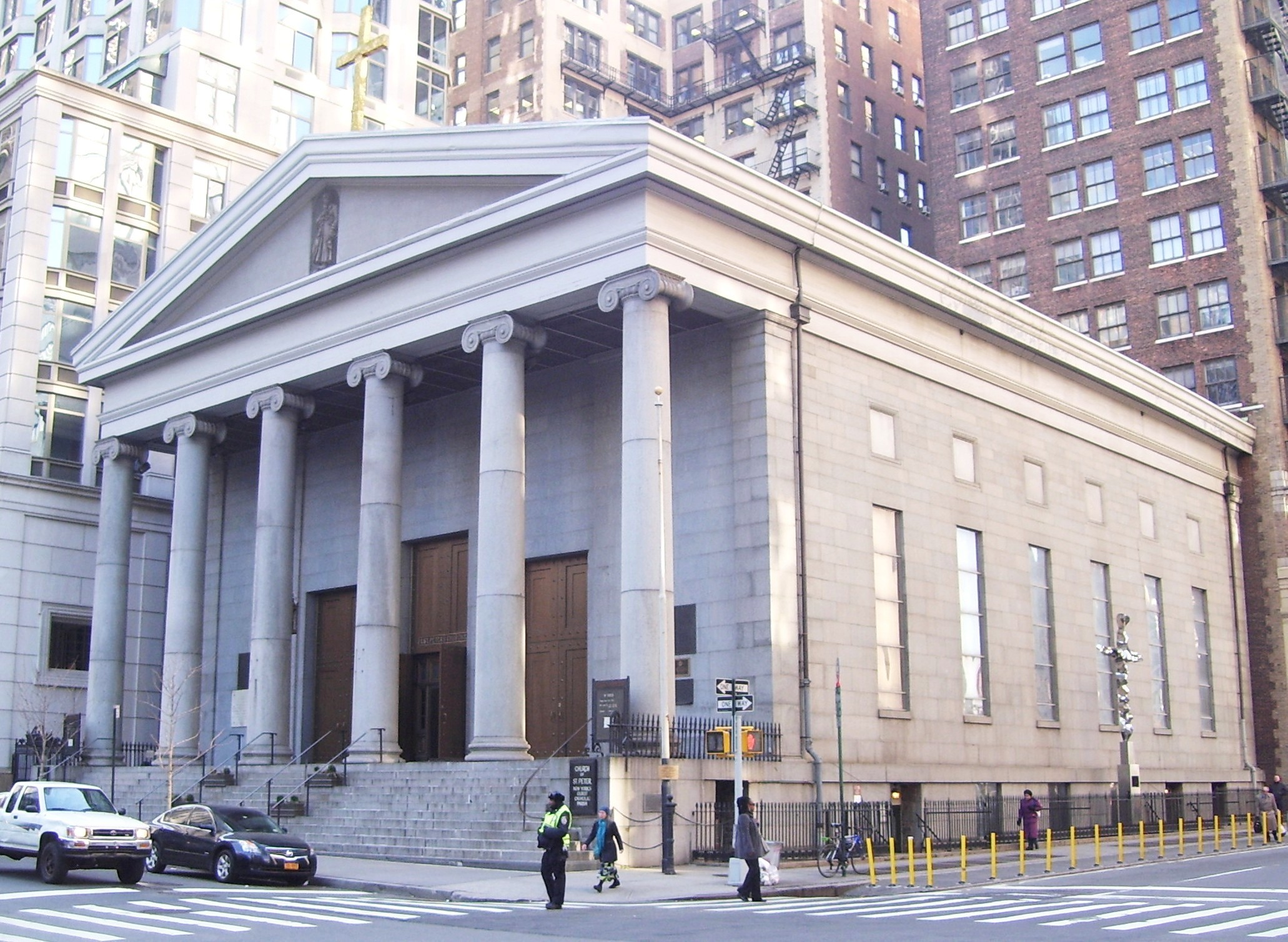 St. Peter's Roman Catholic Church at 22 Barclay Street at the corner of Church Street in the Financial District of Manhattan, New York City was built in 1836-40 and was designed by John R. Haggerty and Thomas Thomas in the Greek Revival style, with 6 Ionic colums. The parish is the oldest Roman Catholic parish in the city, and the building replaced an earlier one built in 1785. It was designated a NYC landmark in 1965. (Source: Guide to NYC Landmarks (4th ed.))